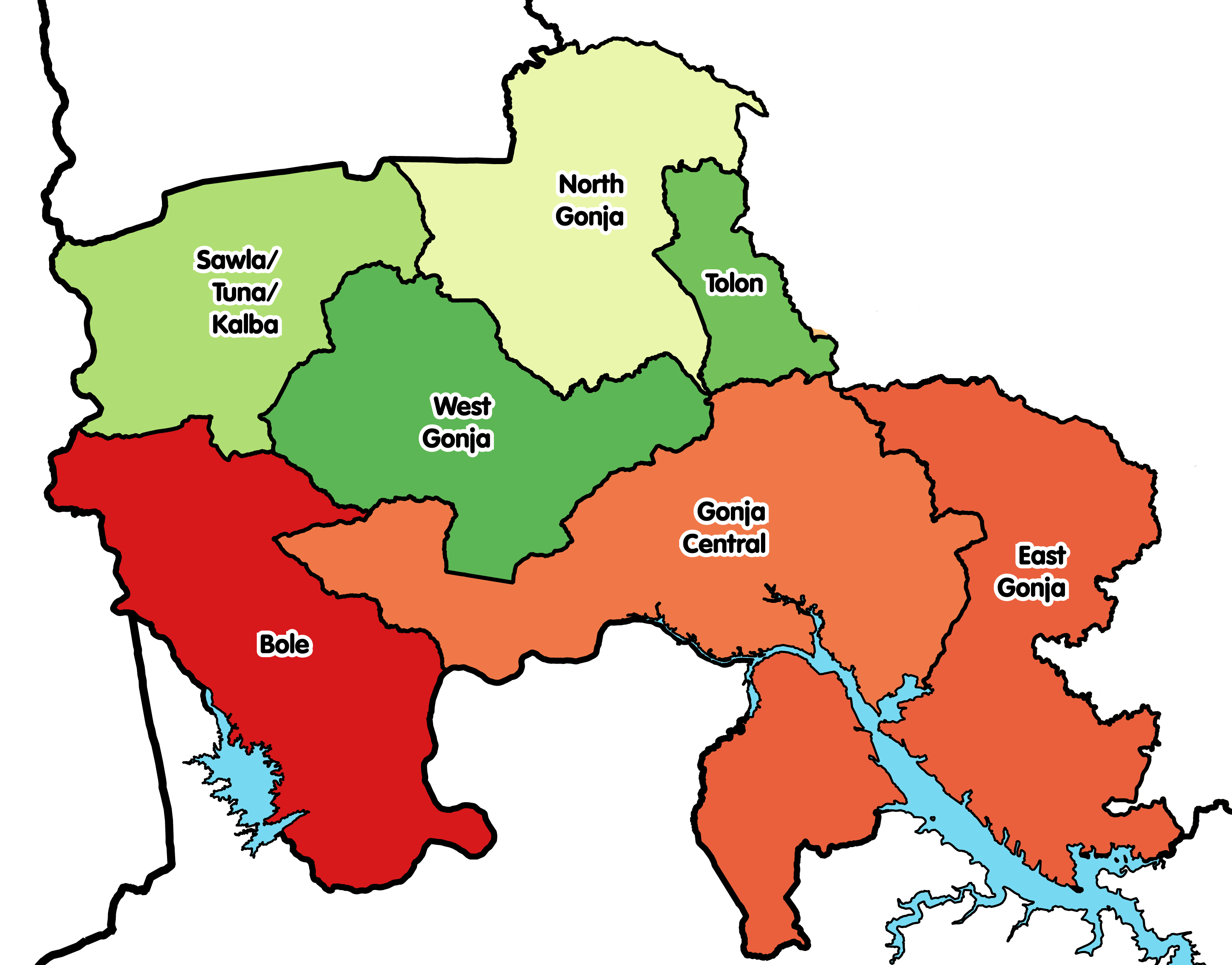 Political Map of the districts in Ghana's Savannah Region